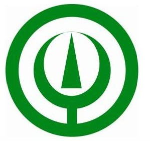 Yusuhara Kochi chapter